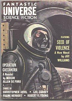 November 1958 issue of Fantastic Universe magazine